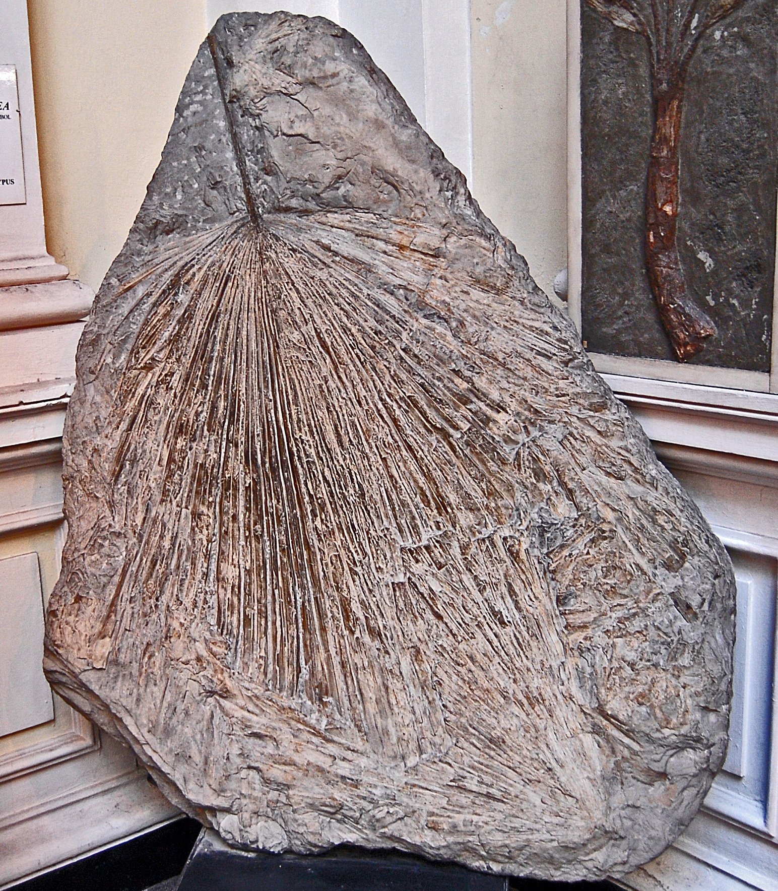 Crop of file in filename